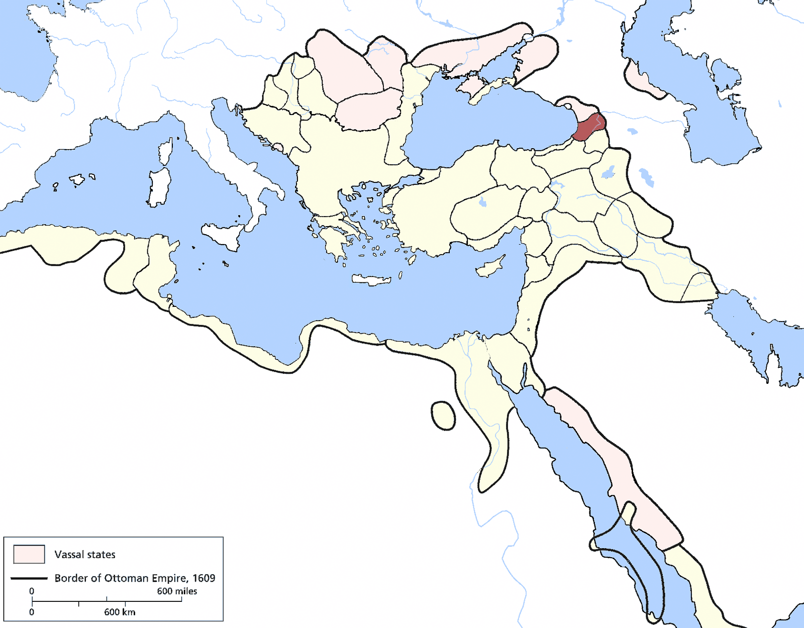 Cildir Eyalet, Ottoman Empire (1609). Source: Encyclopedia of the Ottoman Empire at Google Books By Gábor Ágoston, Bruce Alan Masters